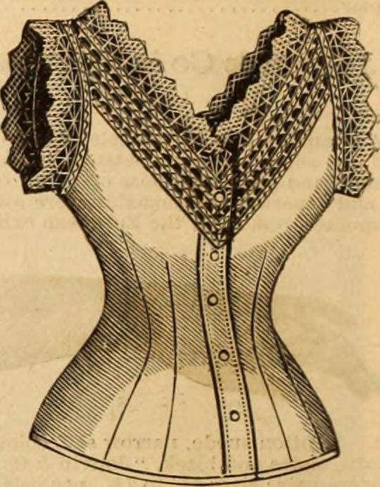 Corset cover, Bloomingdale Bros., New York, Illustrated Fashion Catalogue, Summer 1890.